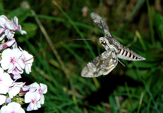 Herse Convolvuli; You can always get a copy in bigger solution at .